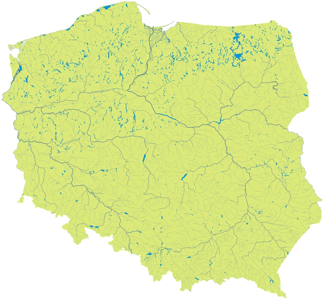 Hydrographic map of Poland. Author: Aotearoa